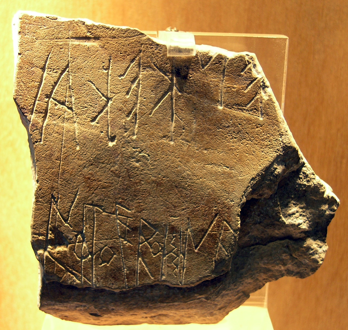 The oldest attic epigraphy from the Museum of Acropolis, dated from the eighth century AD-(rune script) Boustrophédon, two lines.